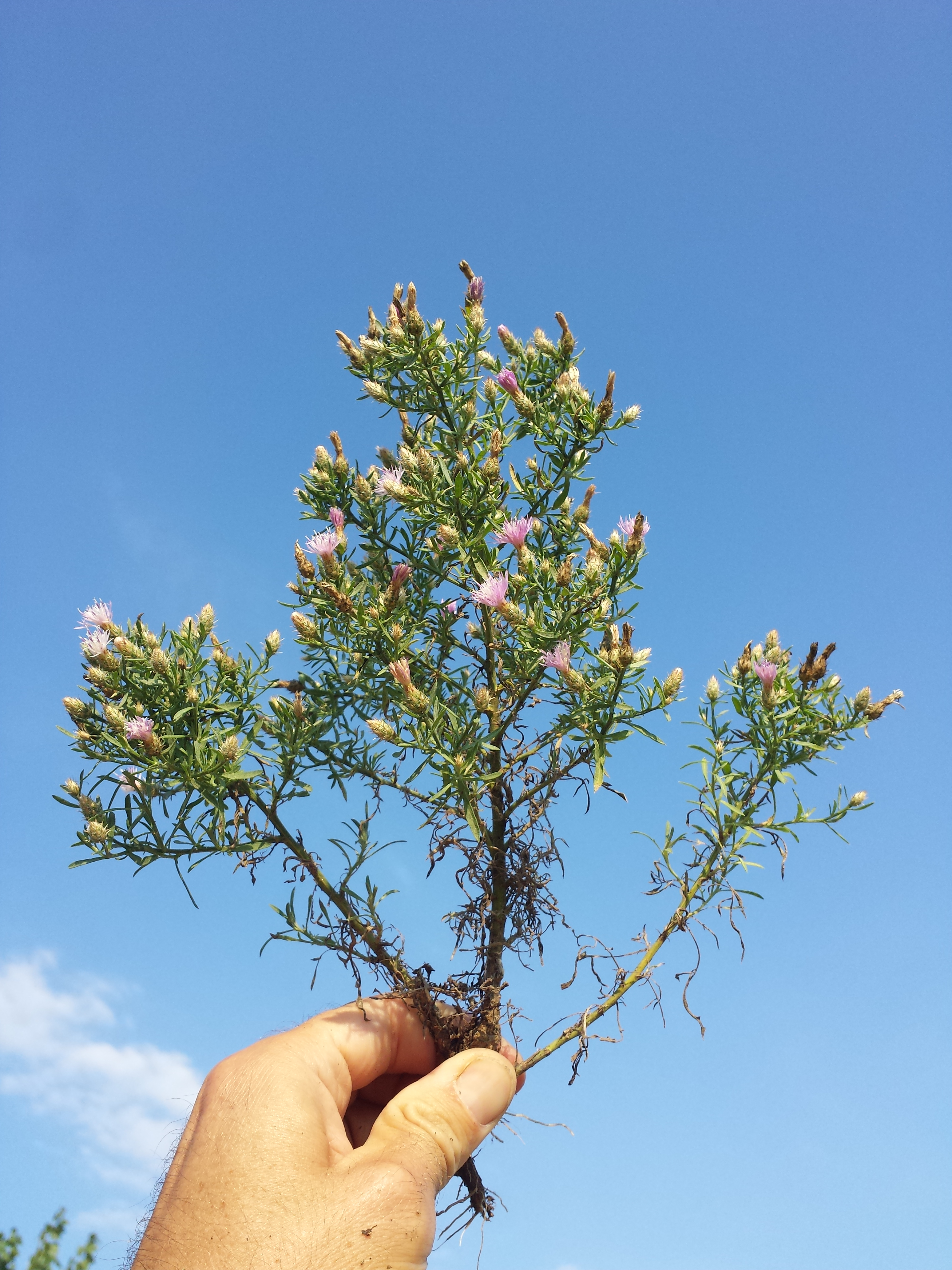 Habitus Taxonym: Centaurea diffusa ss Fischer et al. EfÖLS 2008 ISBN 978-3-85474-187-9 Location: industrial wasteland Grellgasse, Vienna-Floridsdorf - ca. 160 m a.s.l. Habitat: ruderal area